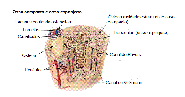 Cross-section of a long bone showing both spongy and compact osseous tissue.